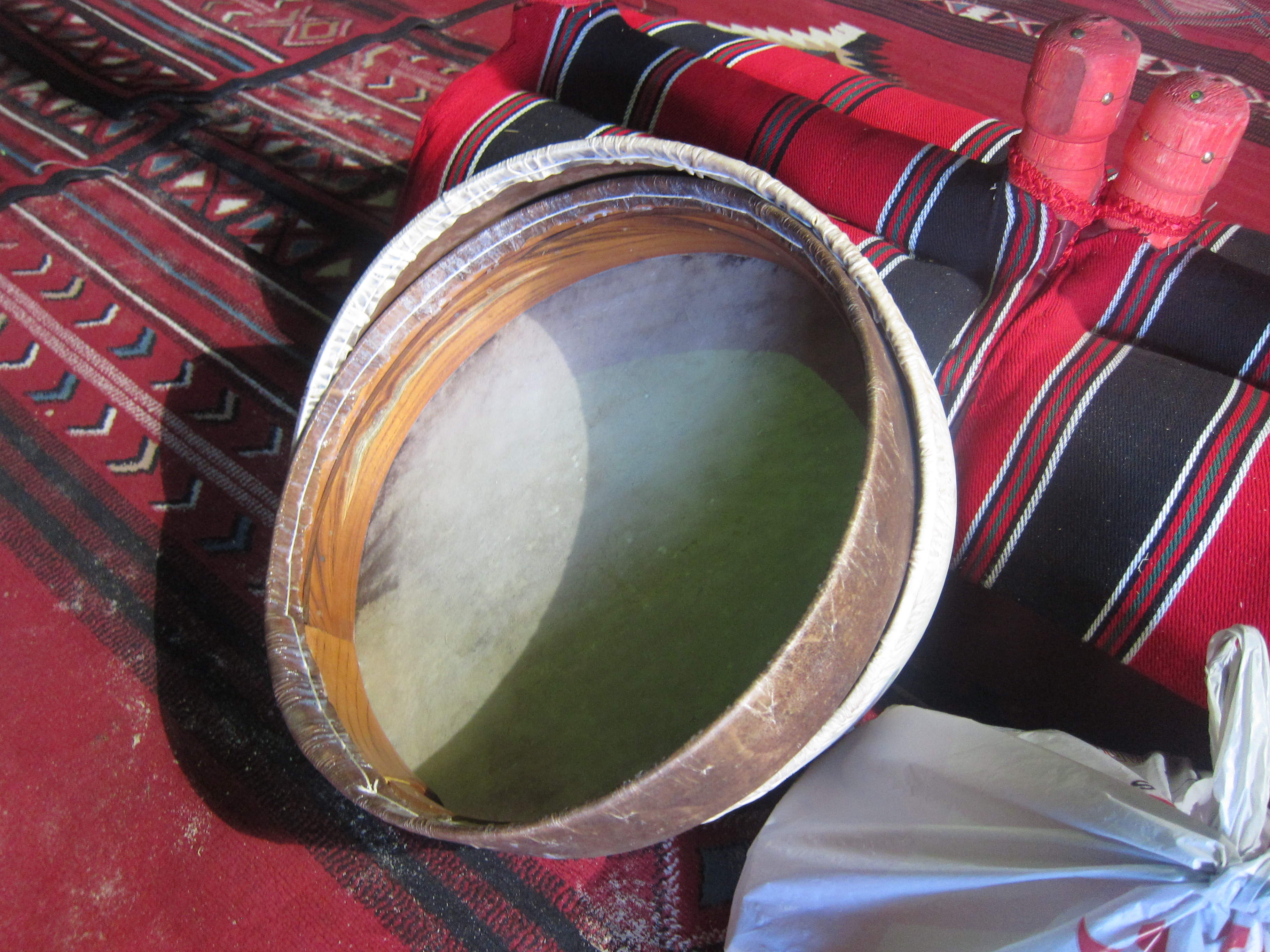 Saudi Culture - സൗദി സംസ്കാരം